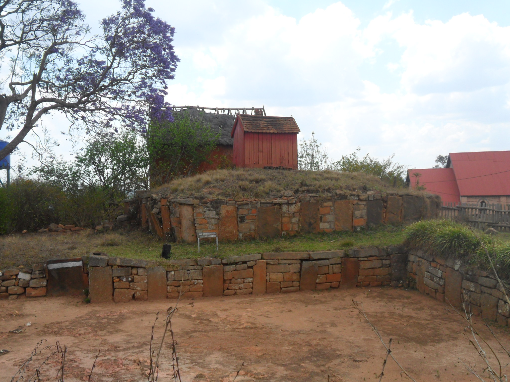 Tombeau de Rasendrasoa, grande épouse du Roi Andrianampoinimerina dans l'enceinte royale de la colline sacrée d'Ambohidrabiby. Madagascar